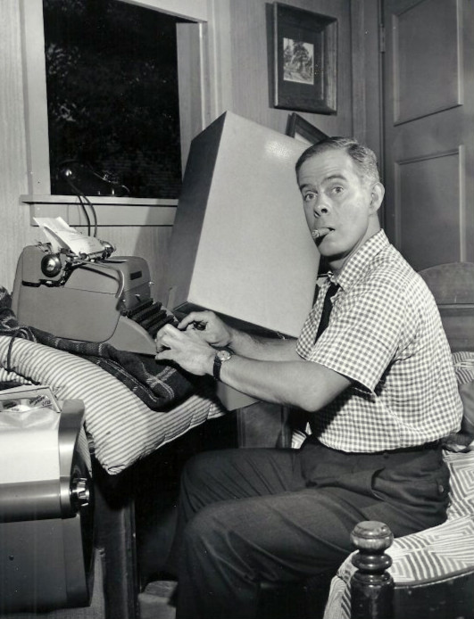 Photo of Harry Morgan as Pete Porter from the television program December Bride. In this episode, Pete helps his next door neighbor, Lily (Spring Byington), with her efforts to write a book.